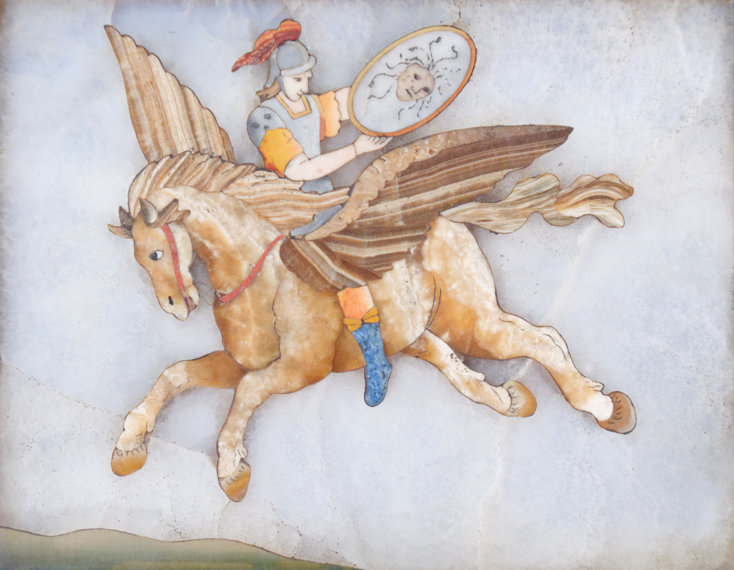 Perseus and Pegasus, panel from a cabinet with mythological scenes. Made by the Florence grand-ducal workshop to a design by Leonard van der Winne.